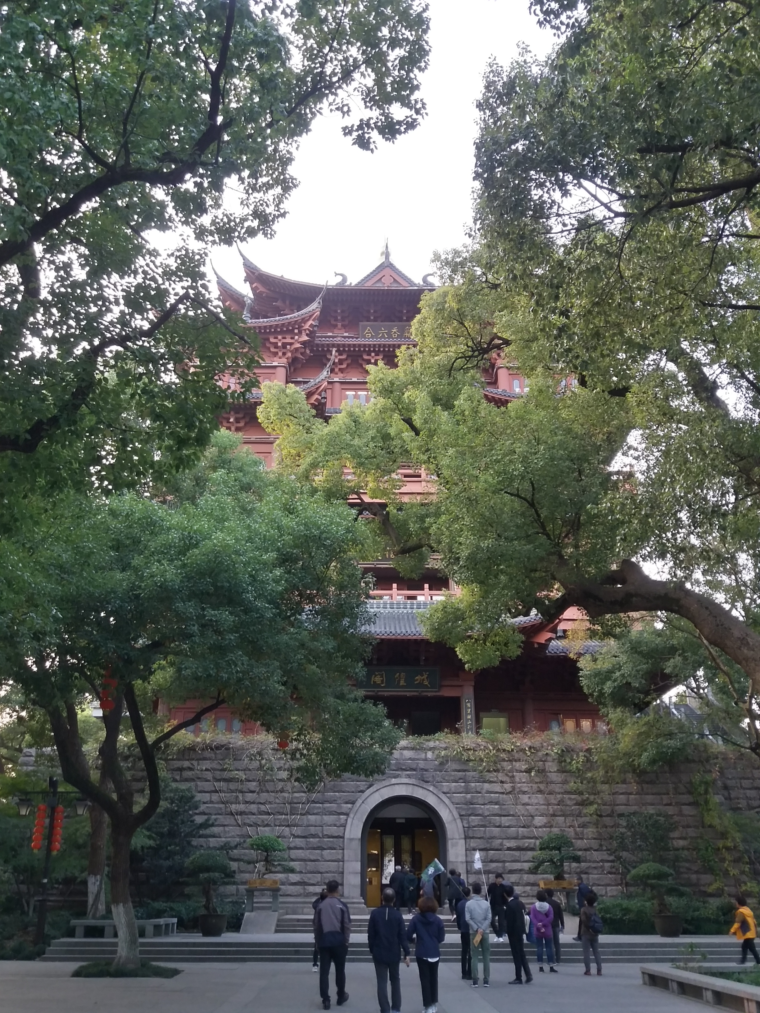 City God Pavilion, Hangzhou